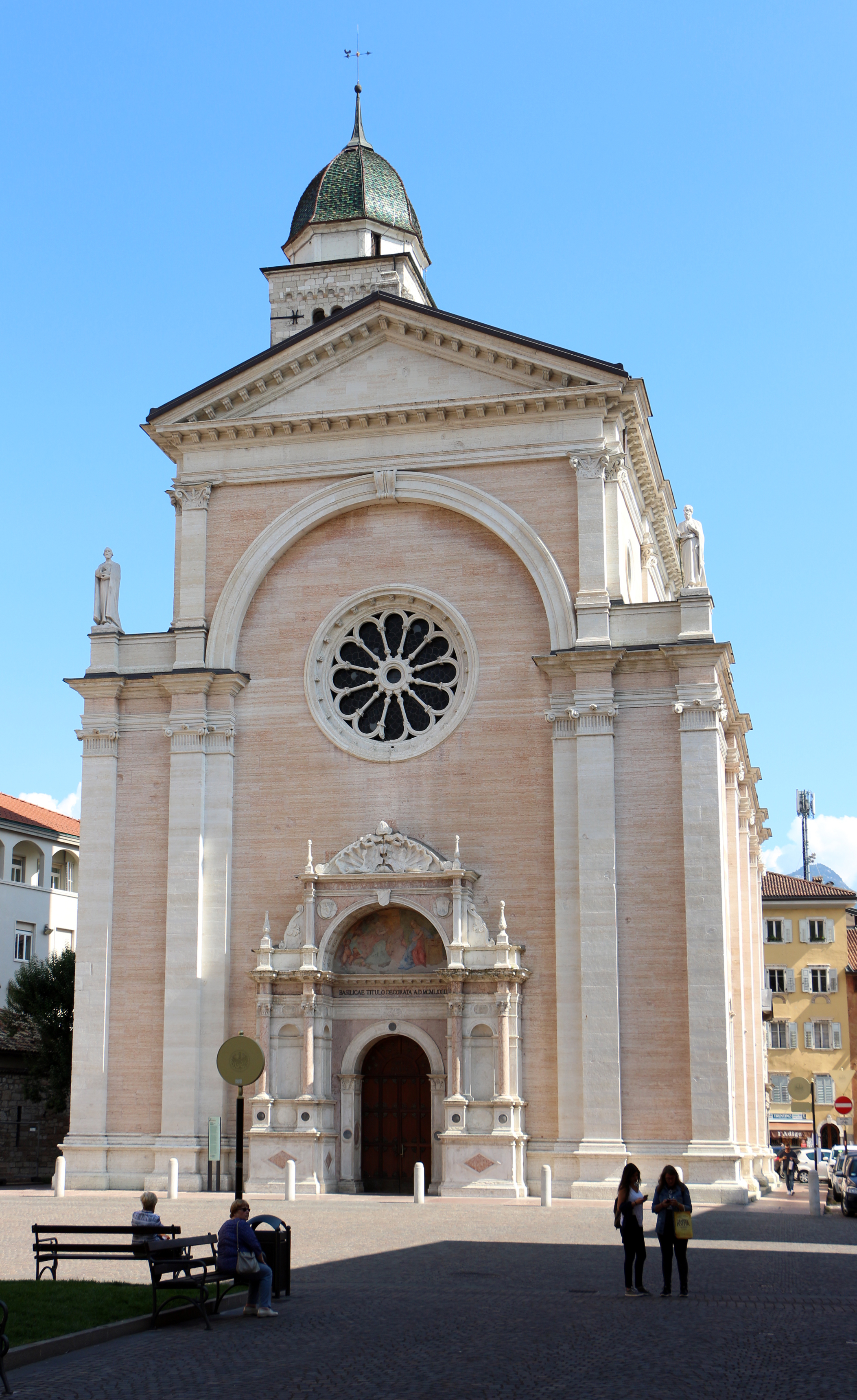 Churches in Trento